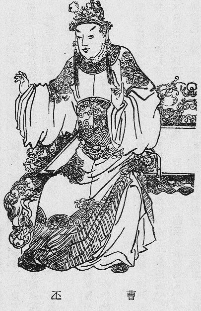 Portrait of Cao Pi, first Emperor of the Kingdom of Wei in China, from a Qing Dynasty edition of The Romance of the Three Kingdoms.